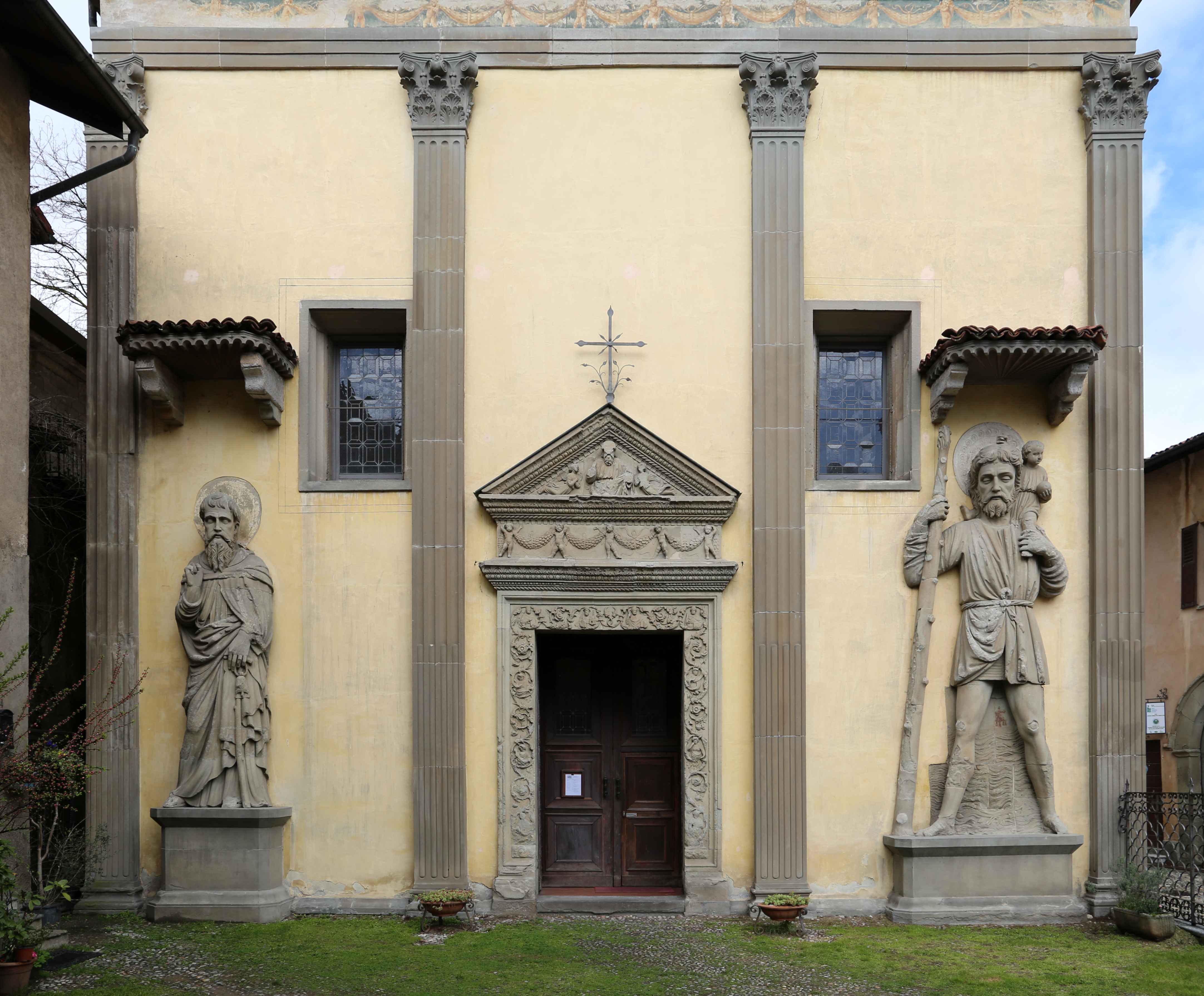 Chiesa del Santissimo Corpo di Cristo (Castiglione Olona)